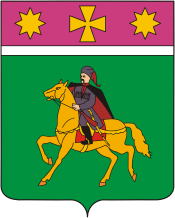 Coat of arms of Poltavskaya, Krasnodar Krai, Russia